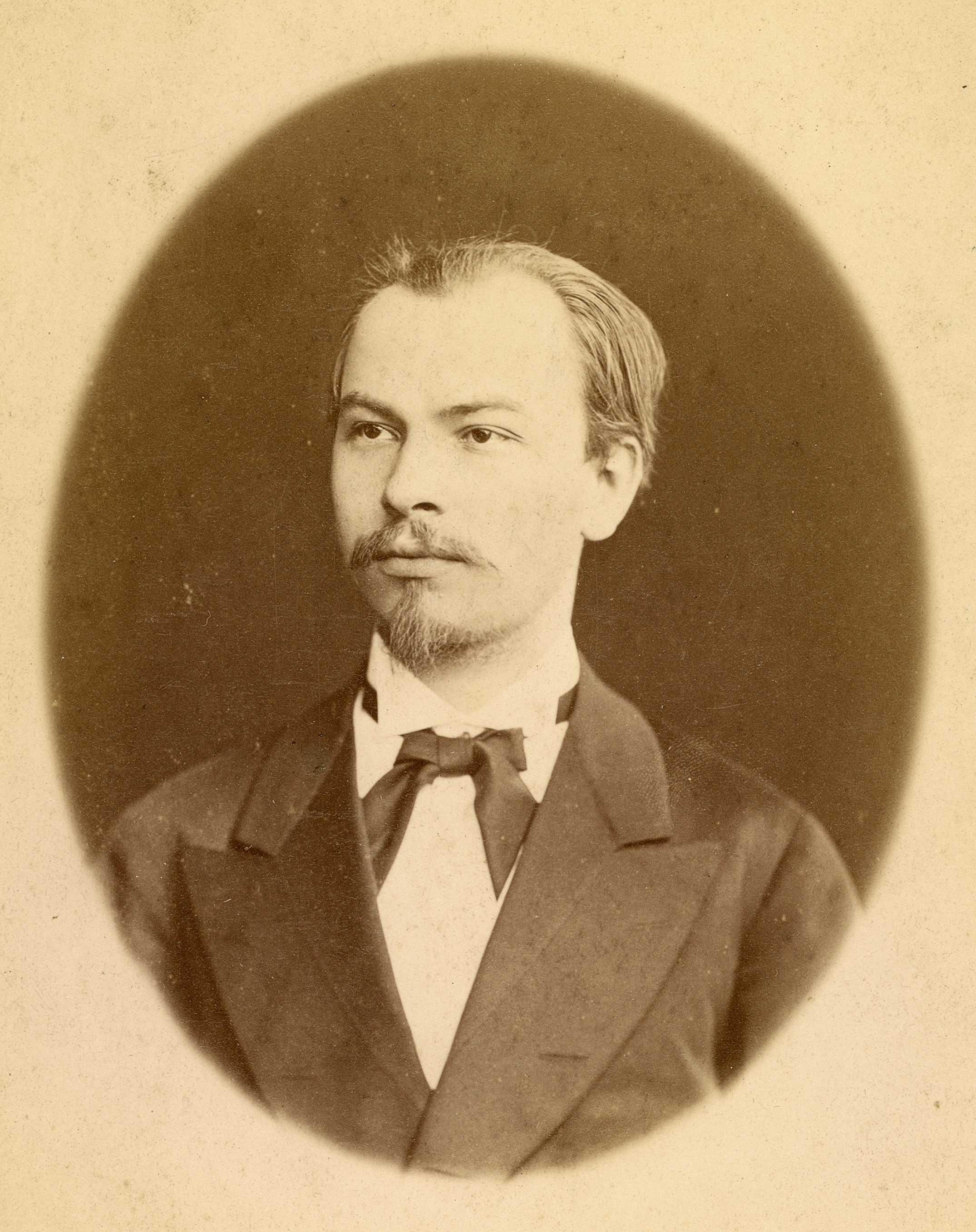 Friedrich Fromhold Martens (1845-1909), Russian diplomat, lawyer and expert in international law